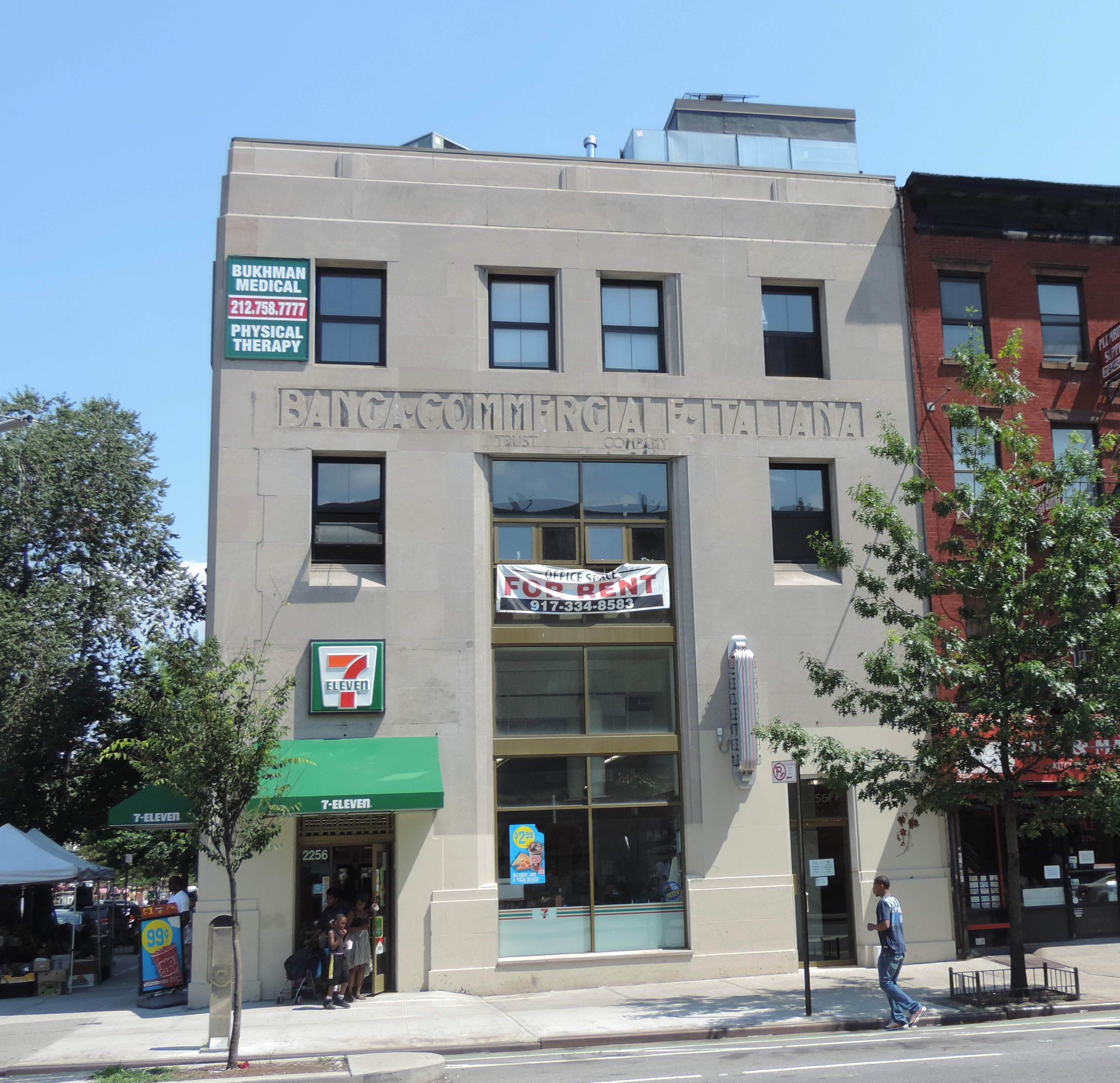 Looking east across 2nd Av on a sunny midday.